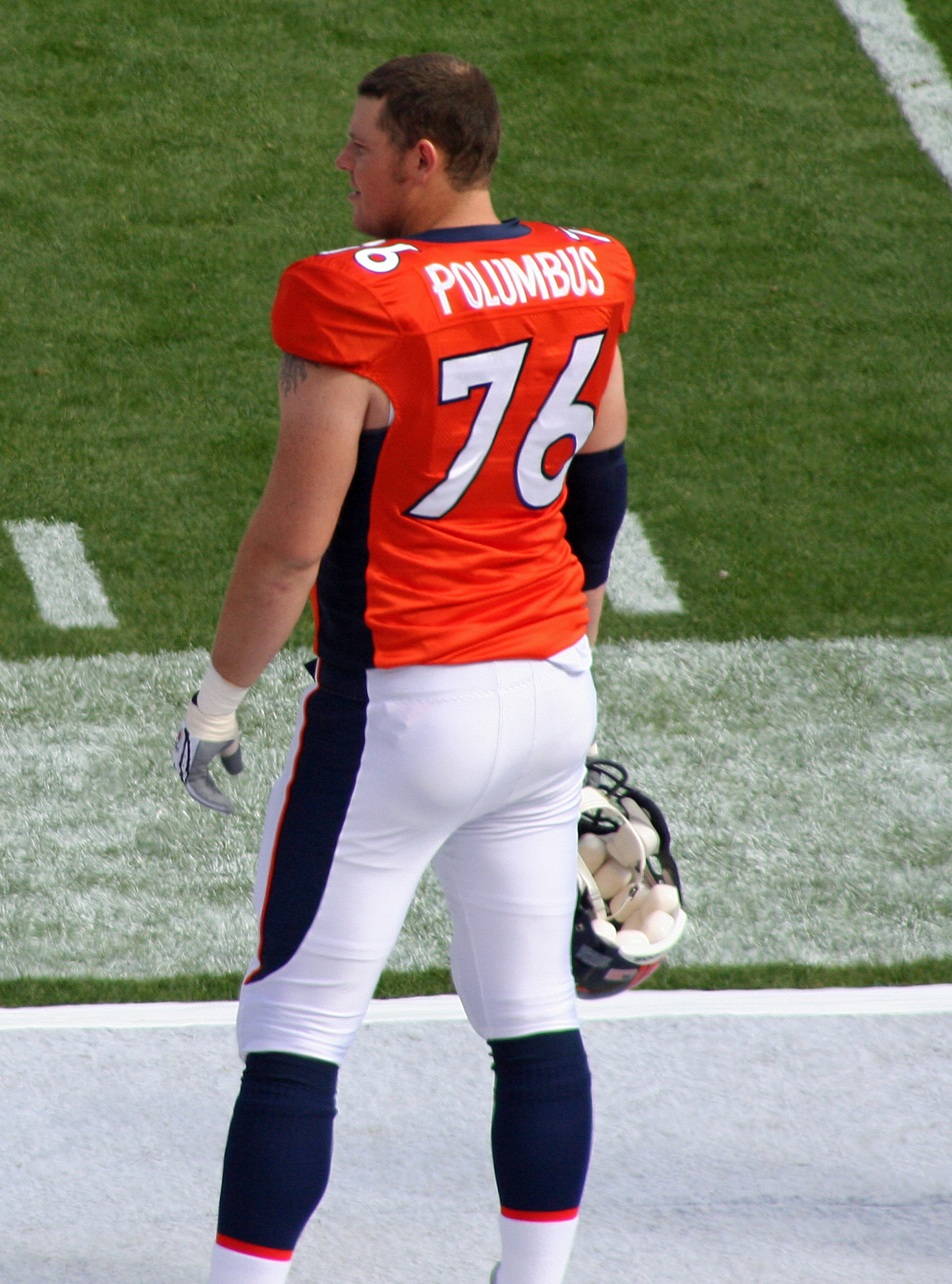 Tyler Polumbus, a player on the Denver Broncos American football team.